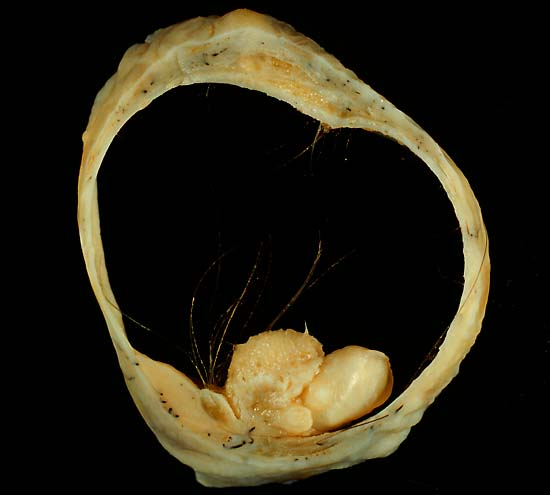 This is the same case presented in Image:Mature cystic teratoma of ovary.jpg. The photo shows a well-developed tooth arising from the right side of the mural nodule ("Rokitansky nodule") that contains most of the solid teratomatous elements. The central portion of the nodule contains mostly cutaneous tissues (skin, sweat glands, and hair follicles), while the neural tissues extend into the wall toward the left. In the past, the teratoma (literally, "monster tumor") was considered to be a conceptus, and (according to an ancient Merck Manual I remember reading) the Roman Catholic Church required that teratomas be baptized. Currently, neither pathologists nor the Vatican considers teratomas to be anything other than germ cell tumors of host origin only, with no paternal contribution. These photos were shot on Ektachrome Elite 100 film, daylight type, through a blue filter to correct the emission spectrum of the Photofloods used on the copy stand. The exposure was f/8 for 1/4 second, using a Minolta X-370 fitted with bellows. The key to a good photo of a teratoma is to clean out all the greasy material in the cyst. To do this, on receipt of the specimen, I palpated the external surface to determine where the mural nodule was. Then, at the antipodes of the nodule, I carefully made a straight gentle incision that extended for about half the circumference of the specimen. I did not express the contents not distort the cyst in any way. Then, I soaked the specimen in Carnoys' fluid overnight. By the next day, the grease had been broken up and diluted enough that I could gently wash it out of the lumen with more Carnoy's. This left a squeaky-clean internal surface, and all I had to do was extend my original incision all the way around the specimen, using scissors for the thin part of the wall. Photograph by Ed Uthman, MD. Public domain. Posted 27 May 01